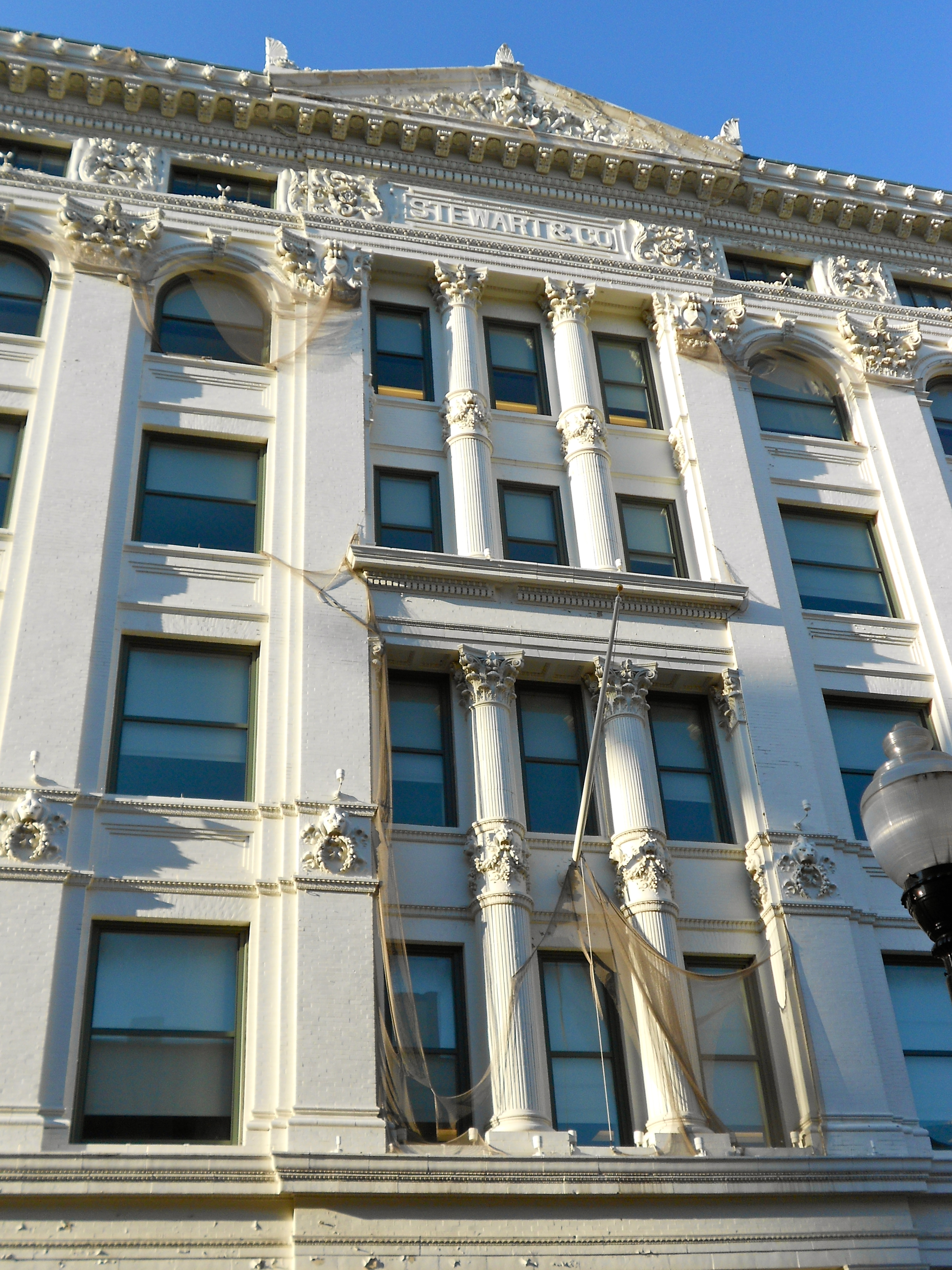 Stewart's Department Store on the NRHP since September 3, 1999. At 226-232 W. Lexington St. in central Baltimore, Maryland.